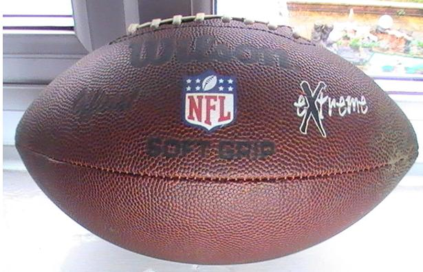 Wilson Extreme NFL Football